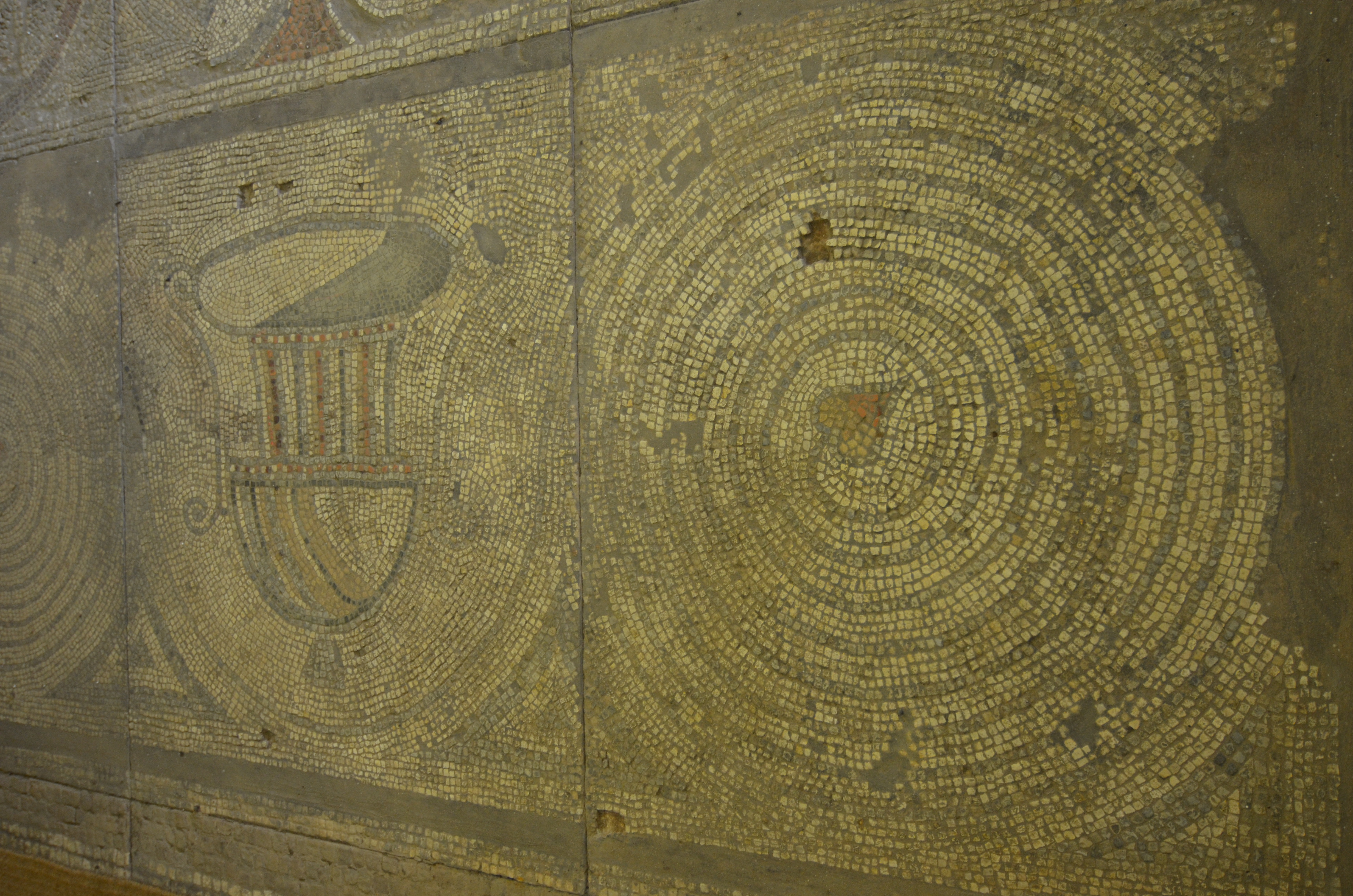 Part of a minor Romano-British villa at Kings Weston, Bristol, England Wikidata has entry Q17641964 with data related to this item.